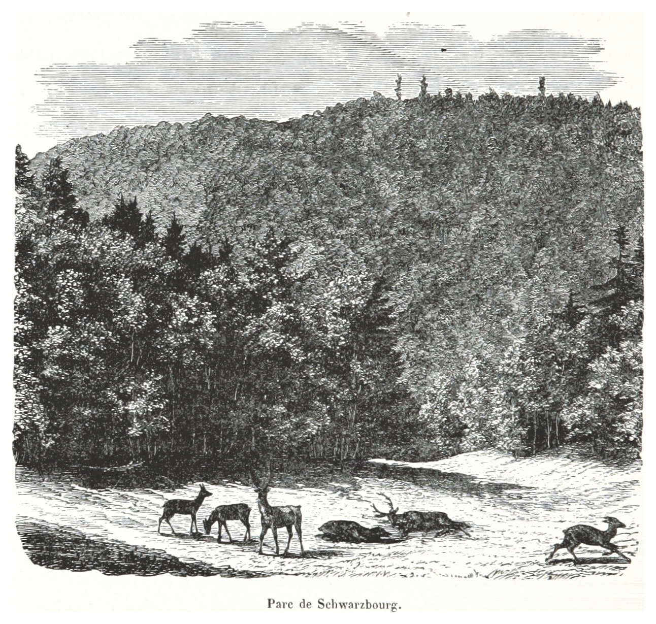 Image extracted from page 460 of Dans la Forêt de Thuringe. Voyage d'étude (1862) by Édouard Humbert. Original held and digitised by the British Library. Copied from Flickr. Note: The colours, contrast and appearance of these illustrations are unlikely to be true to life. They are derived from scanned images that have been enhanced for machine interpretation and have been altered from their originals.